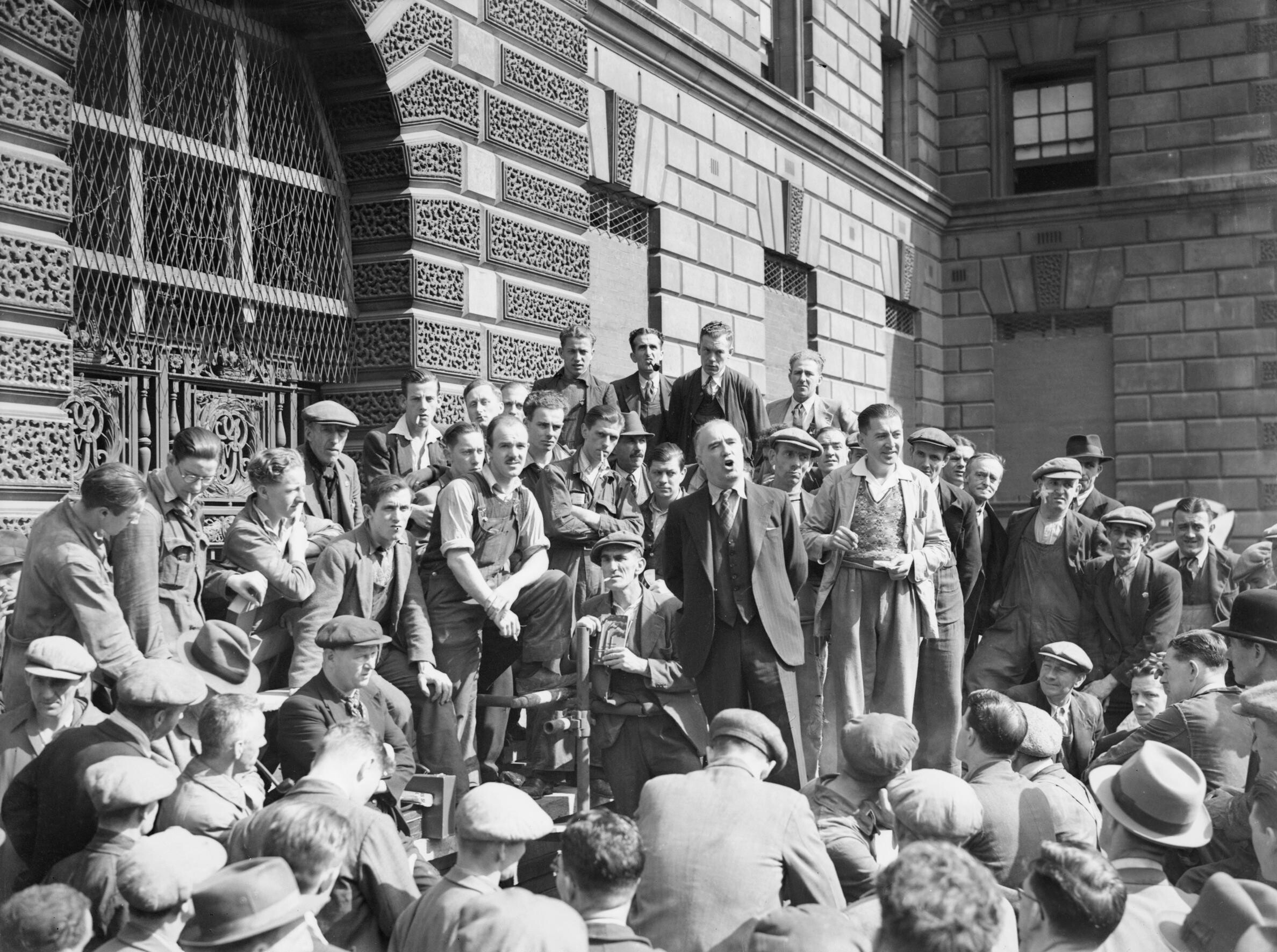 Harry Pollitt, General Secretary of the Communist Party of Great Britain, gives a speech to workers in Whitehall, London, 1941. Harry Pollitt, General Secretary of the Communist Party of Great Britain, gives a speech to workers in Whitehall, London, 1941.